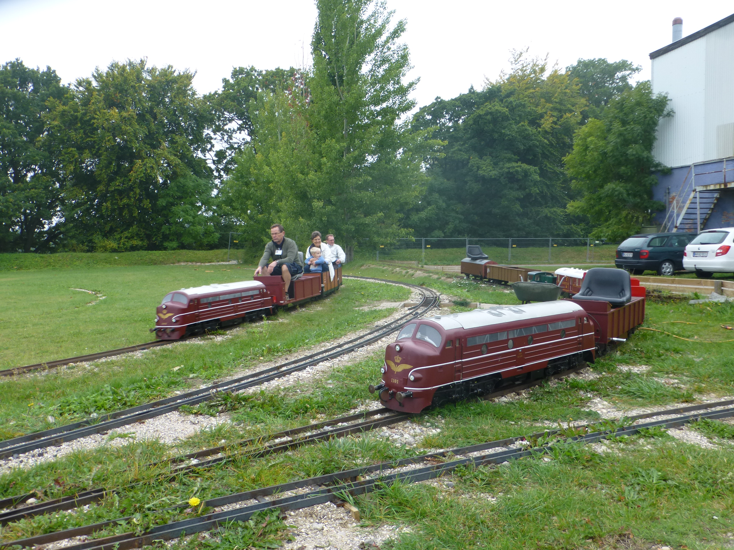 Miniature Railway at Danmarks Tekniske Museum in Helsingør in Denmark.